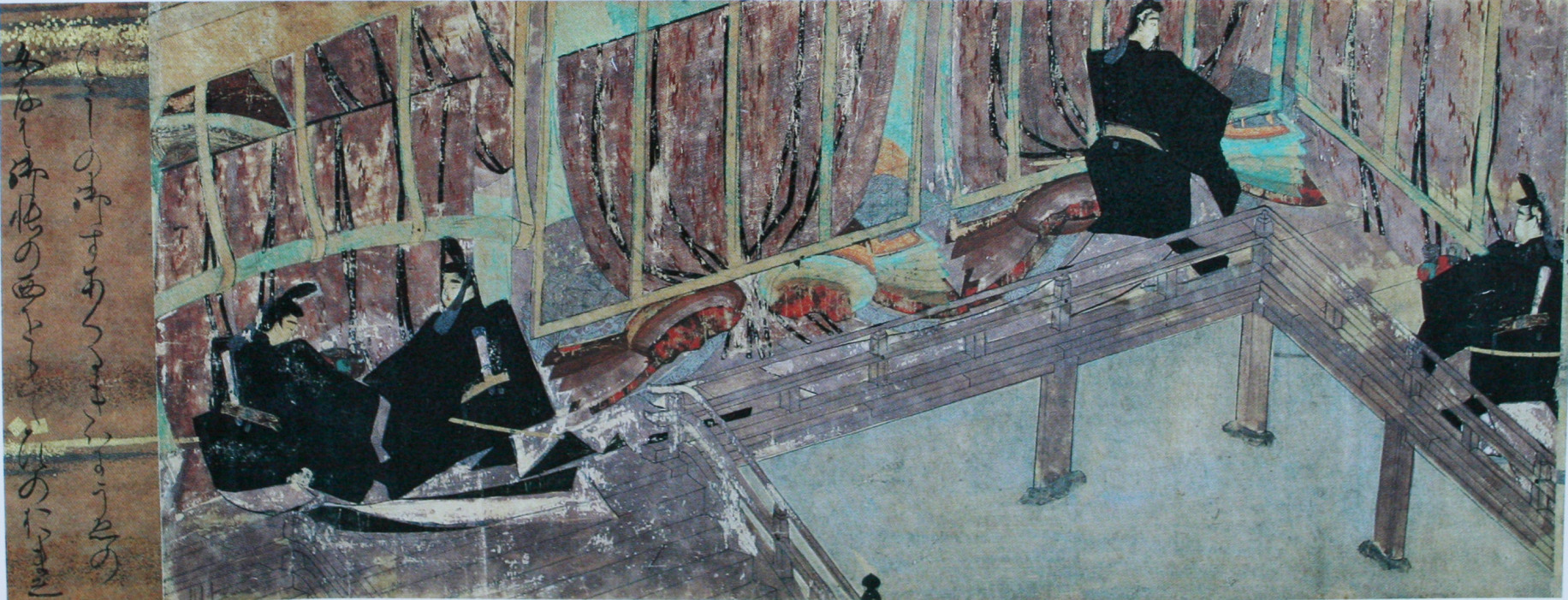 A part of Murasaki-shikibu Nikki Emaki(illestrated hanscroll of Lady Murasaki's diary) A handscroll. Color on paper, 13th century, 20.8x531.6cm